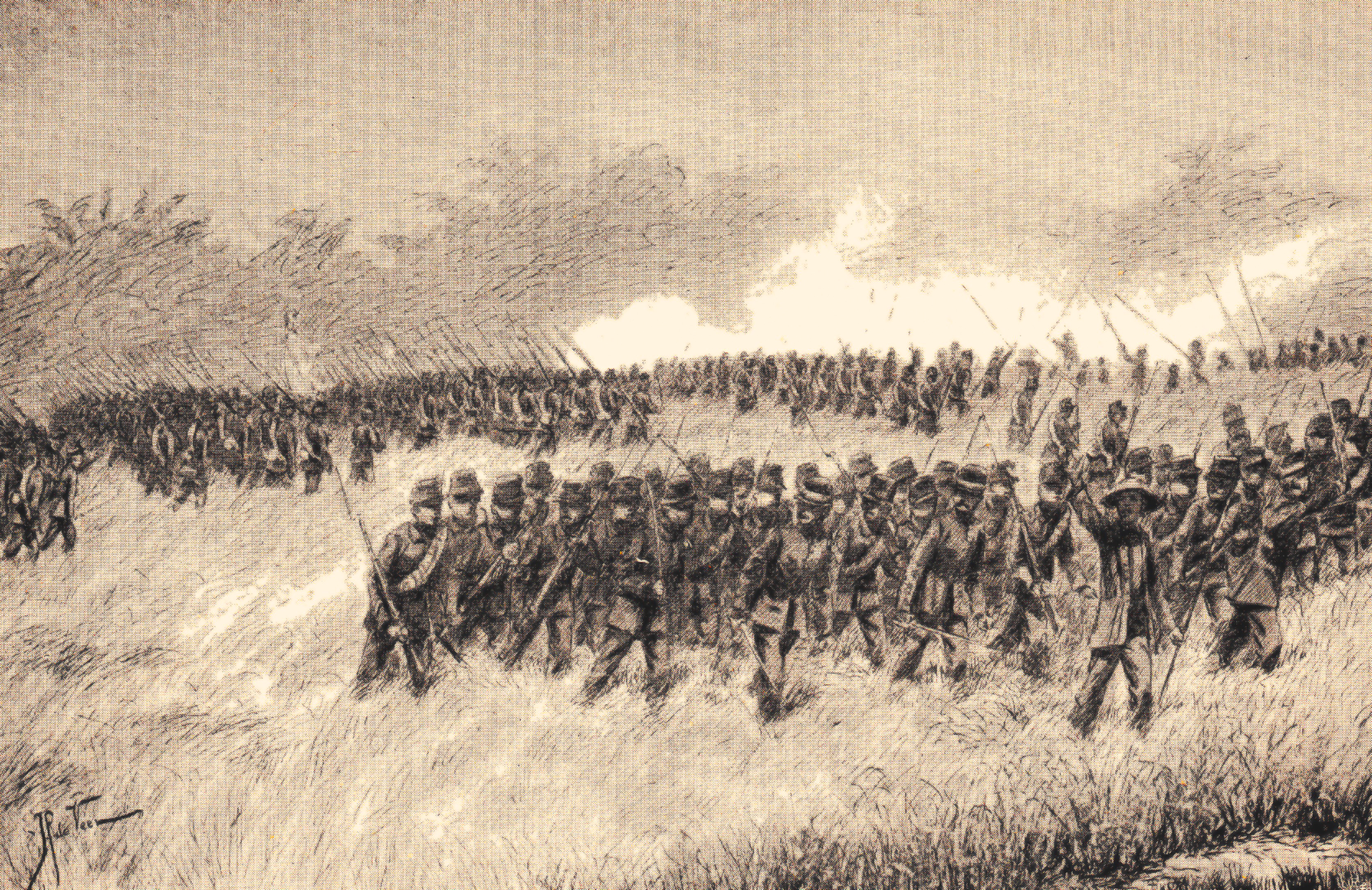 Aanval van kolonel de Brabant